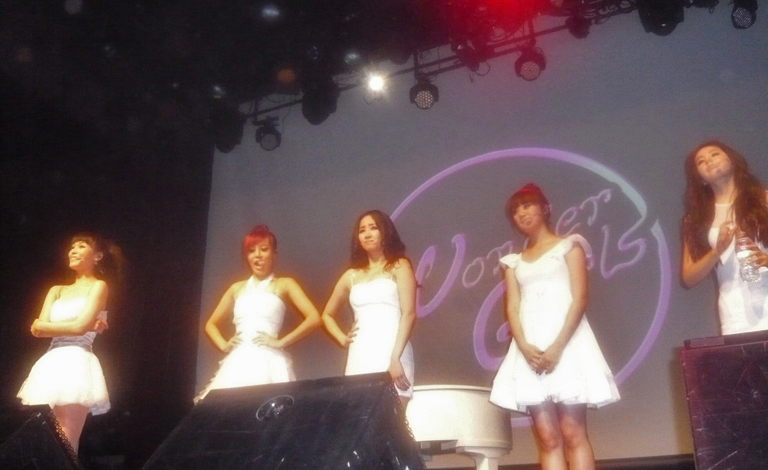 Fan-taken photo of the Wonder Girls performing at the Fillmore in San Francisco, CA; Wonder Girls Wonder World Tour, June 13, 2010. Namiie (talk) 19:24, 14 June 2010 (UTC)